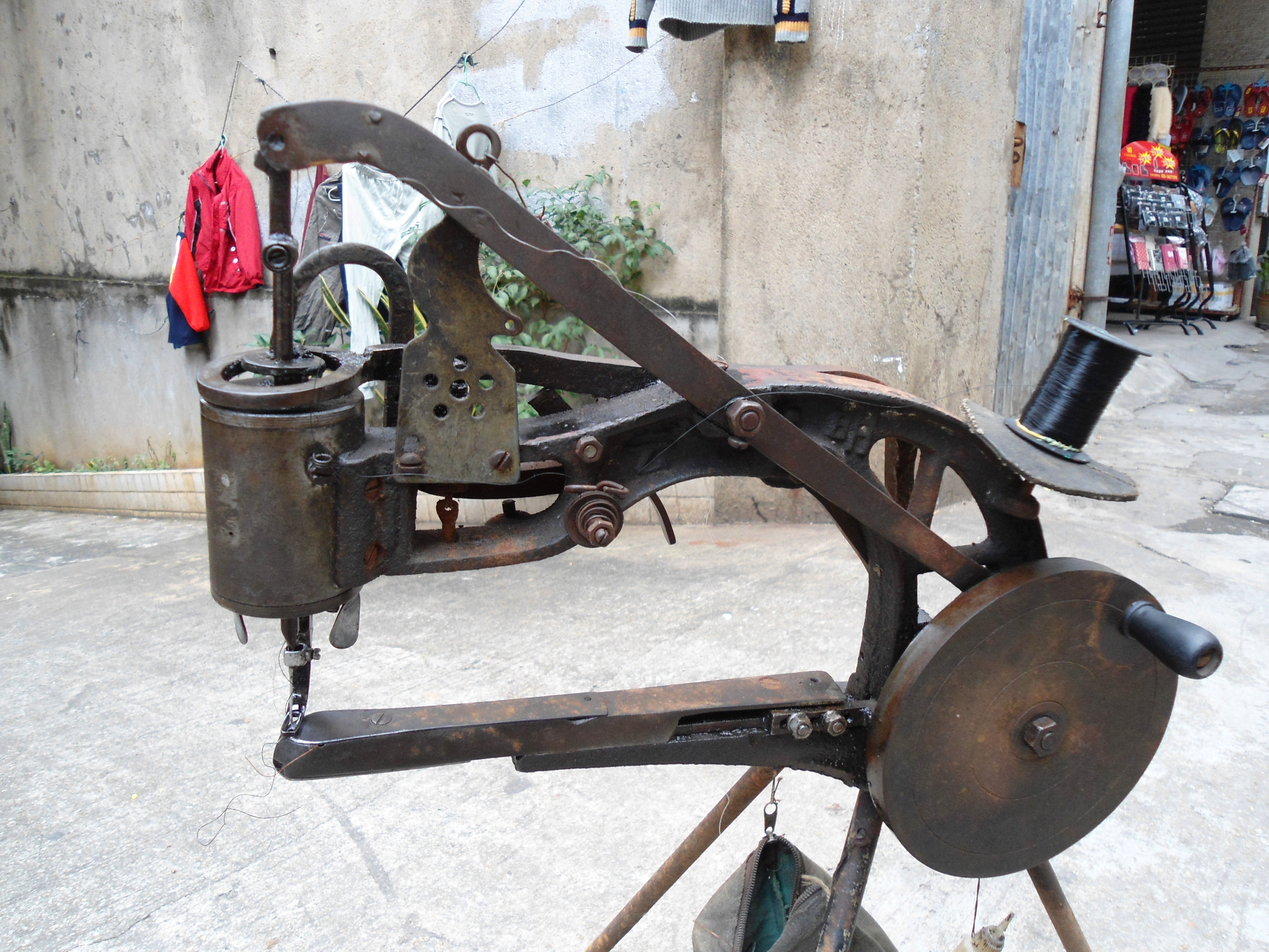 Sewing machine for shoes and bags in Haikou, Hainan Province, People's Republic of China